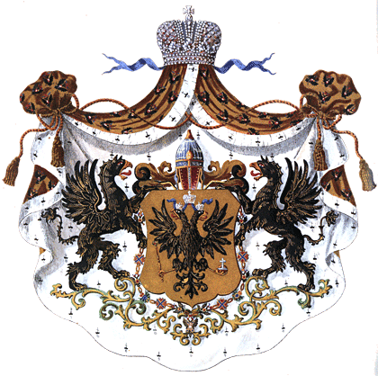 The Greater coat of arms of Their Highnesses the Princes of the Imperial Blood, the sons of the great-great-grandsons of the Emperor of Russia (at the 5th generation), and descendants further in male line.